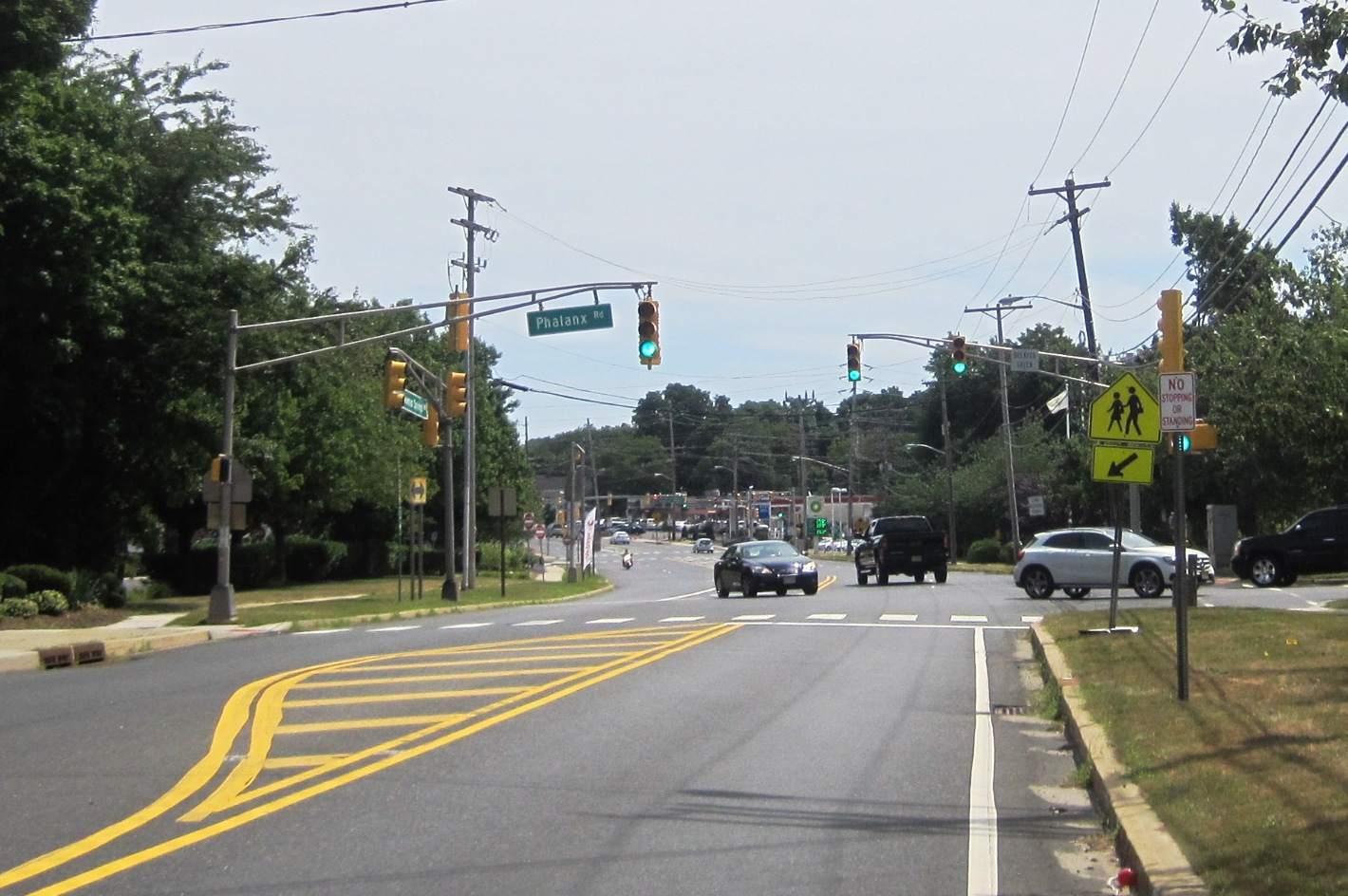 Photo of Lincroft, New Jersey, an unincorporated community within Middletown Township. Photo taken on eastbound Newman Springs Road (County Route 520) at Phalanx Road.